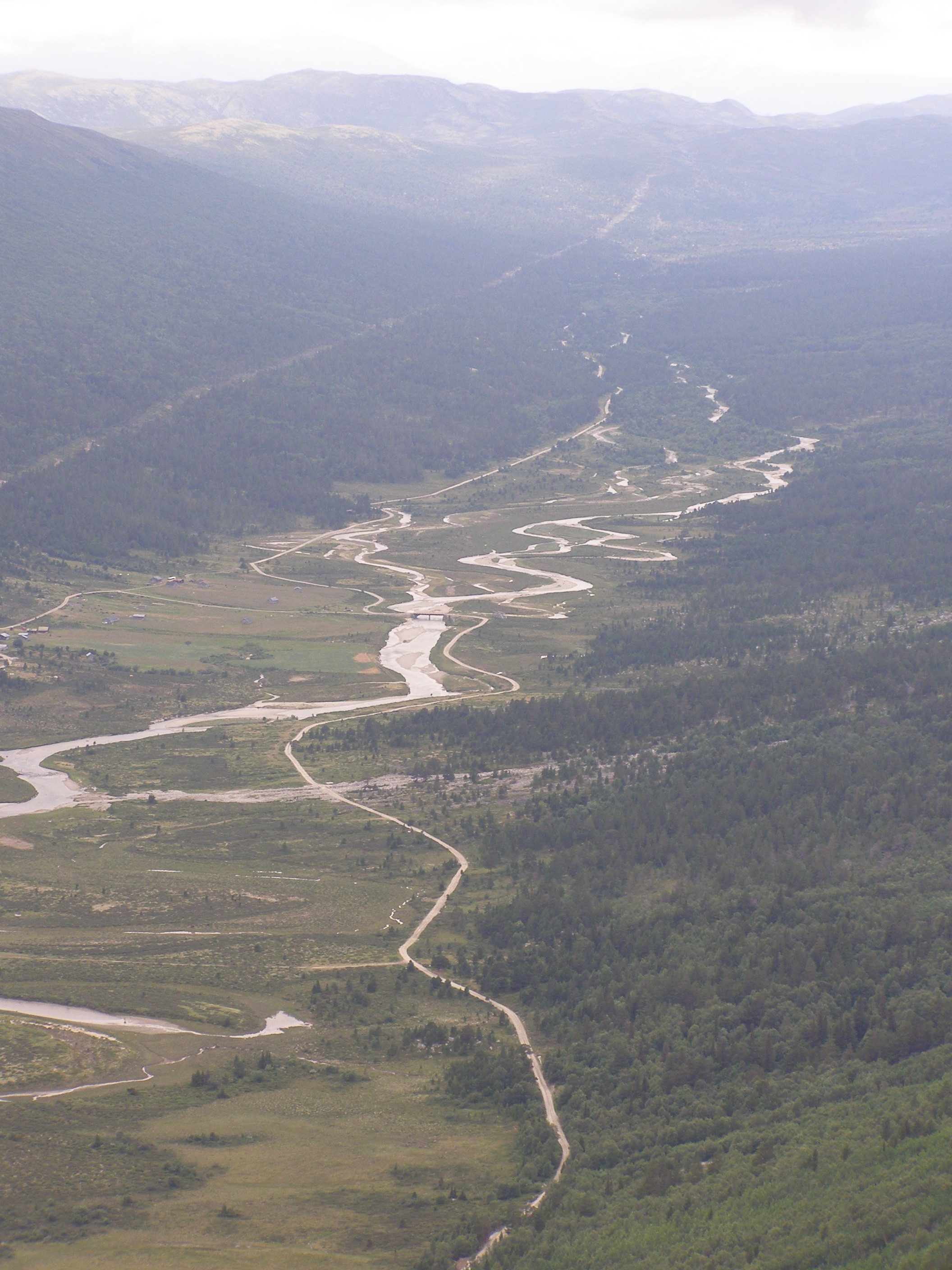 Finndalen wiewed from Klympen.